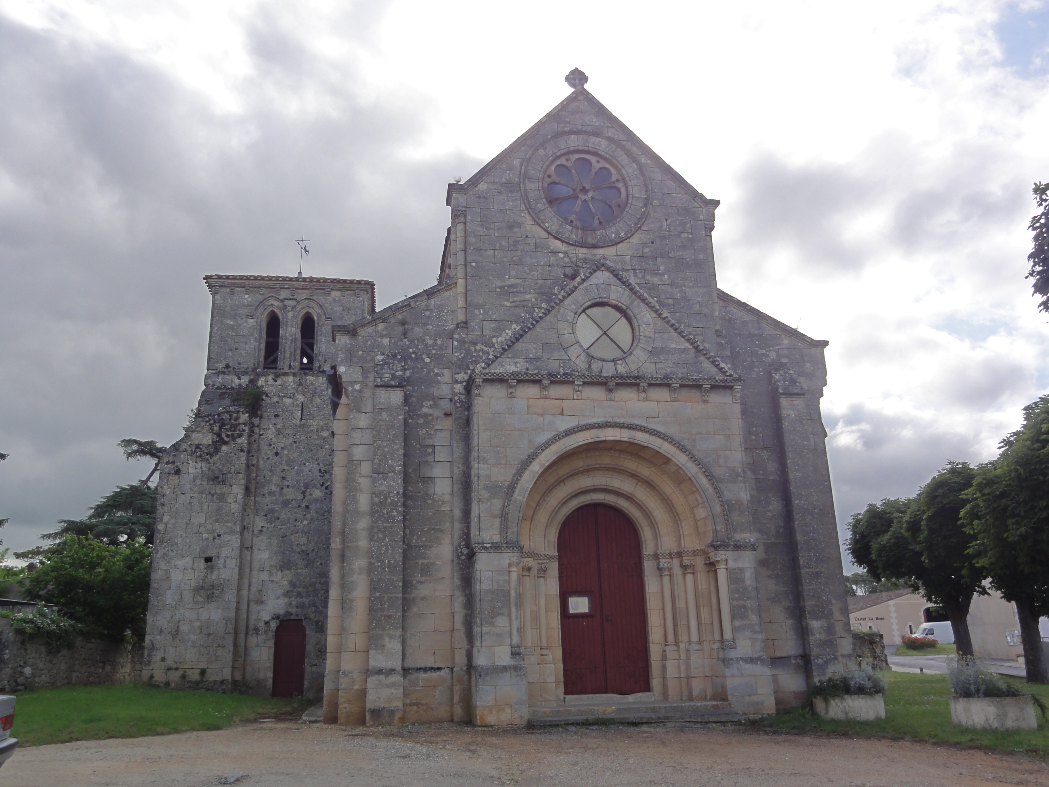 Villeneuve (Gironde) église, façade